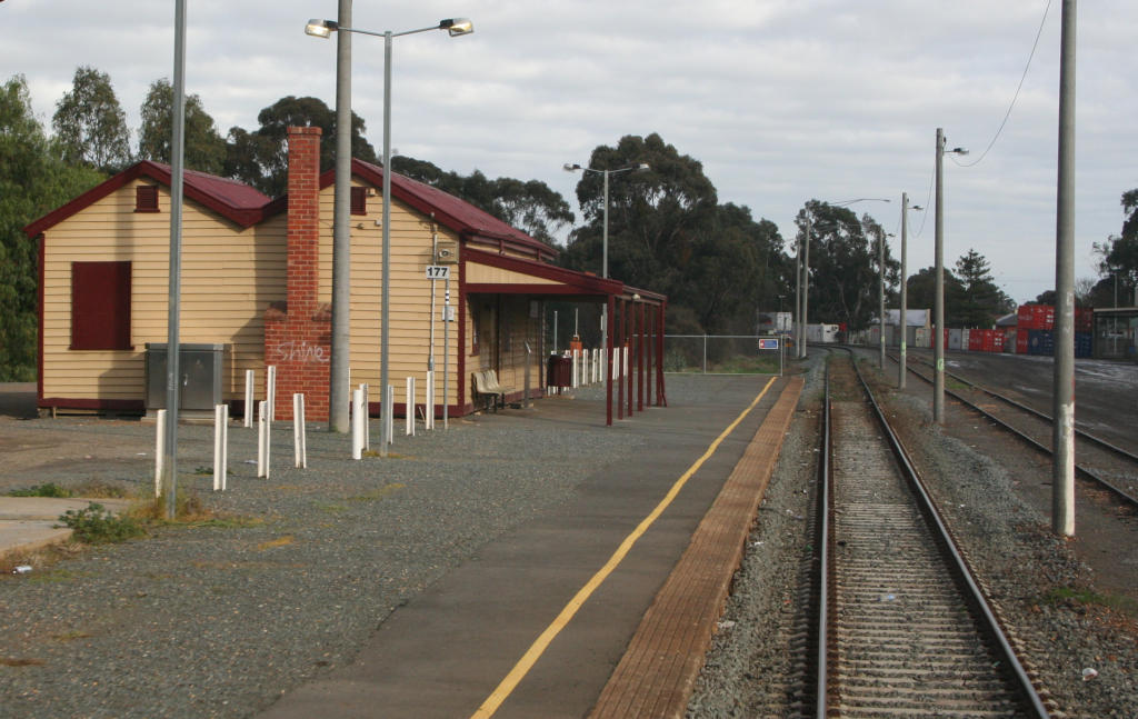 Mooroopna railway station, Victoria station building